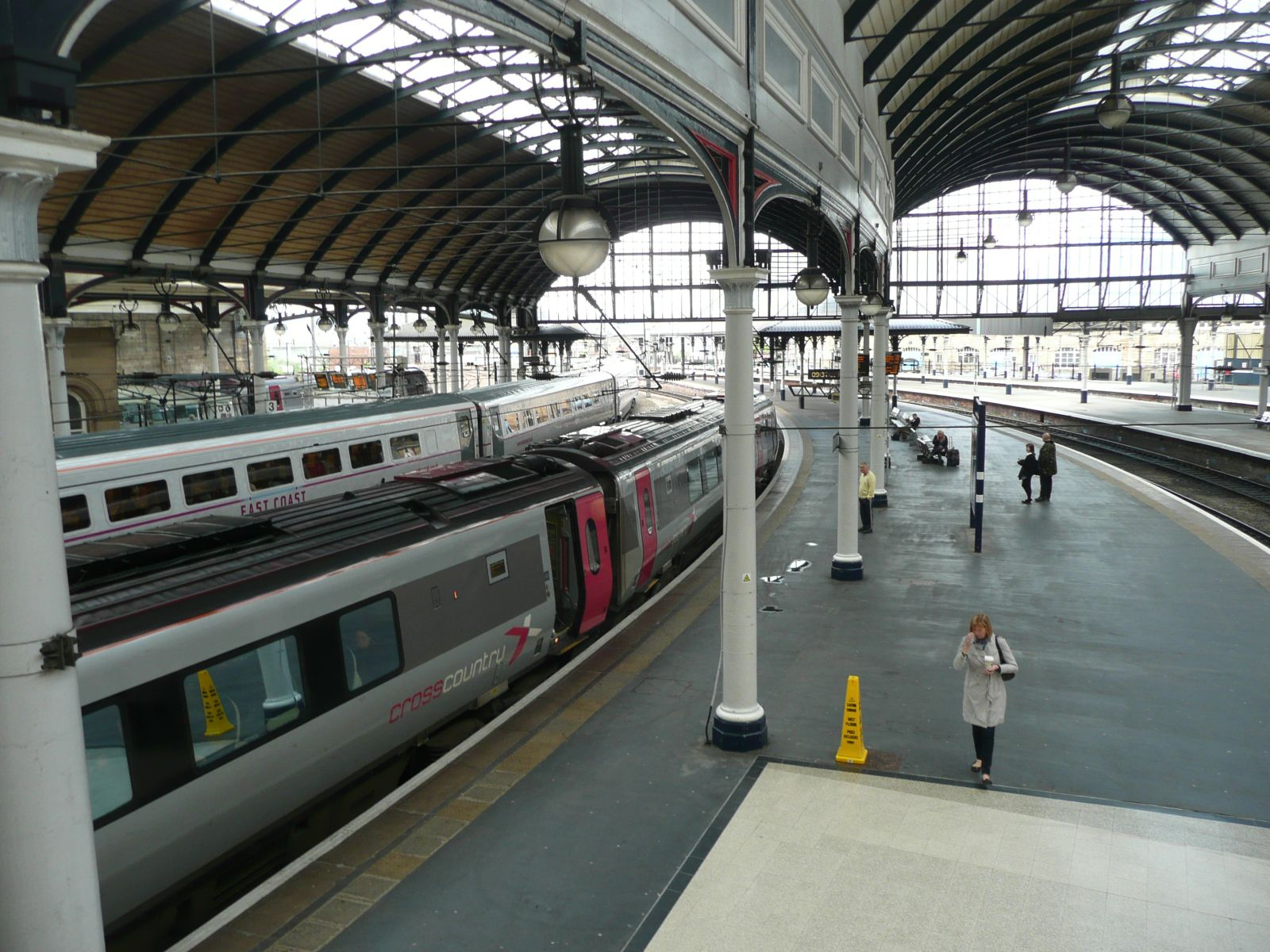 Newcastle Central Station